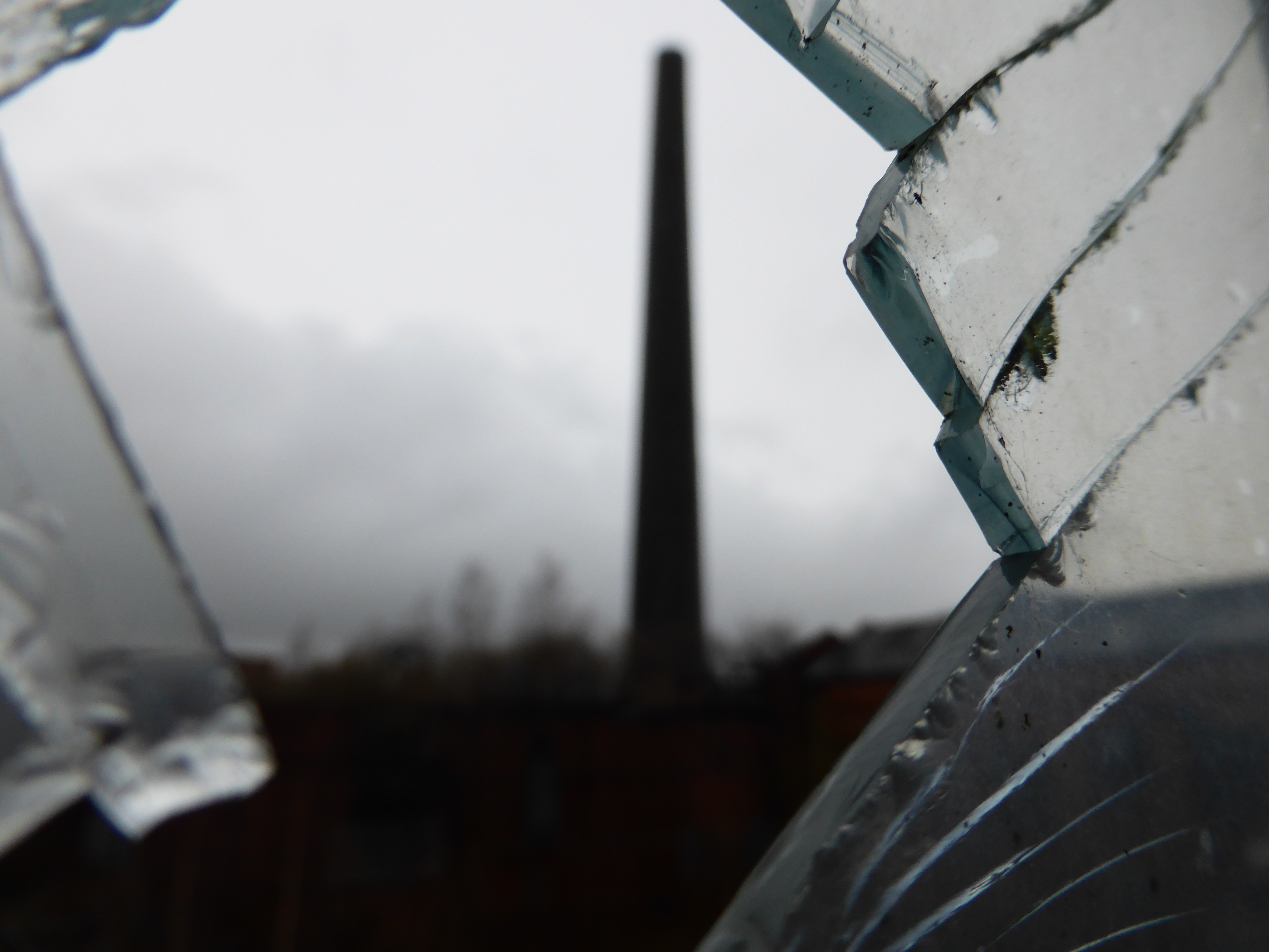 This is a picture taken through a broken window of one of the buildings at Chatterley Whitfield Colliery